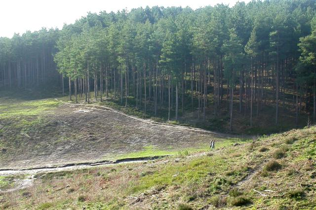 Bourne Wood Or should I say "Germania"? This part of the Alice Holt Forest has often been used as a film location. Probably most famously is the opening battle scene of Ridley Scott's "Gladiator". These Scots Pines are nicely spaced allowing room for horses and enough light to film. "On my signal, unleash Hell!"